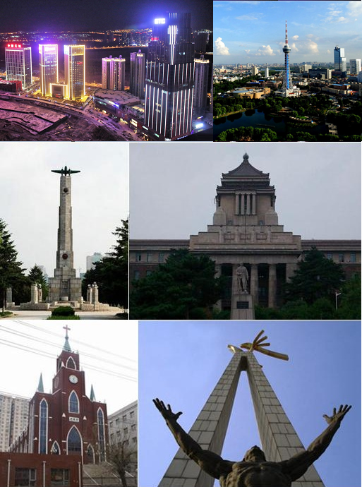 Montage of Changchun, Clockwise from top: panoramic view from Shengtai Plaza, panoramic view of Ji Tower, Former Manchukuo State Department, Statue on cultural square, Changchun Christian church, Soviet martyr monument.